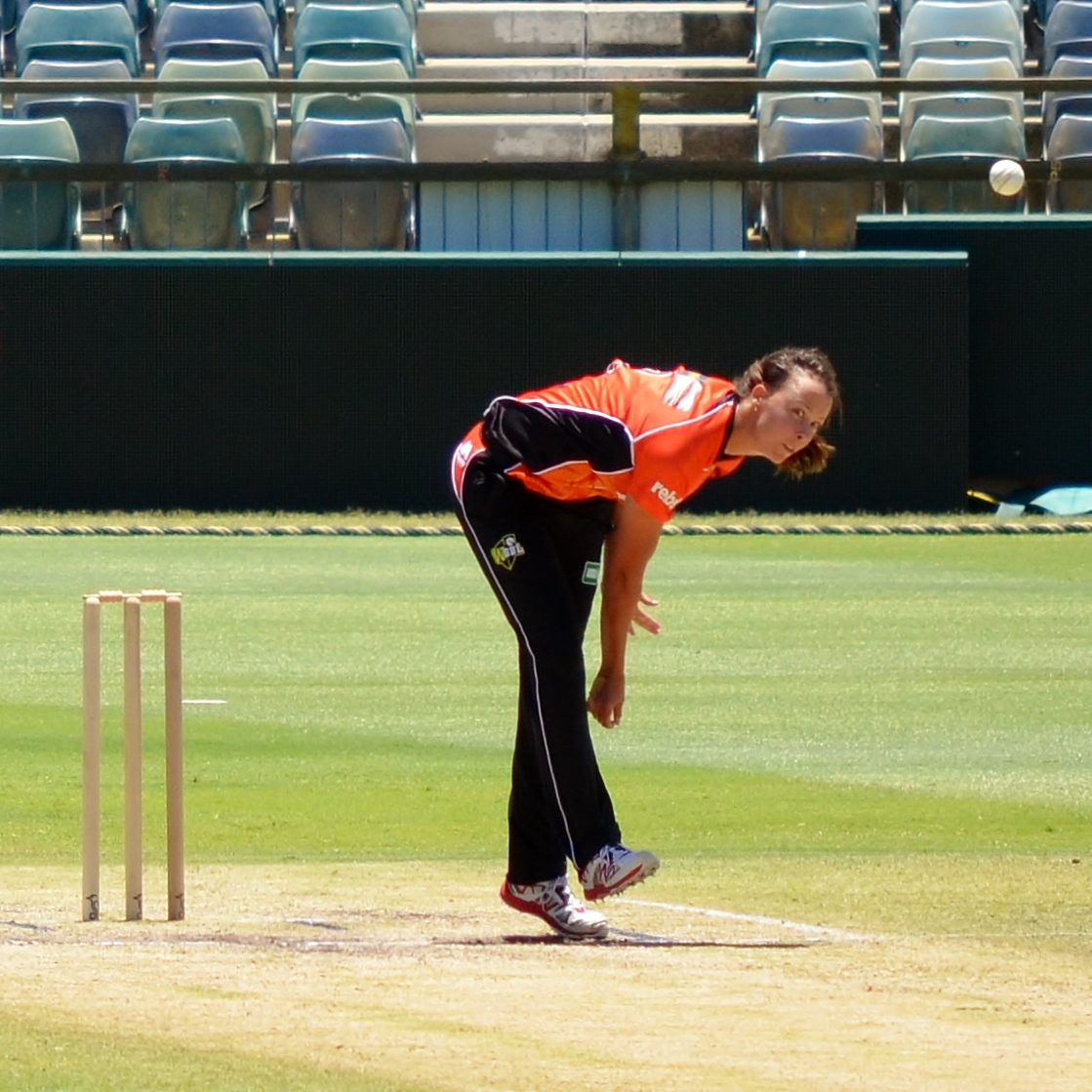 Piepa Cleary bowling for Perth Scorchers (WBBL) against Sydney Thunder (WBBL) at the WACA Ground, Perth, Australia.